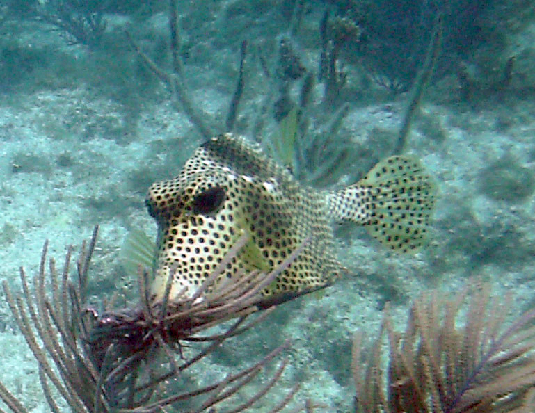 Lactophrys bicaudalis (Spotted Trunkfish) at Pickles Reef, Florida Keys, March 2008